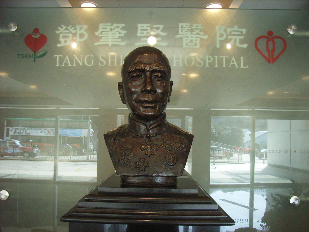 Tang Shiu Kin Hospital, Wanchai, Hong Kong (photographic by me).